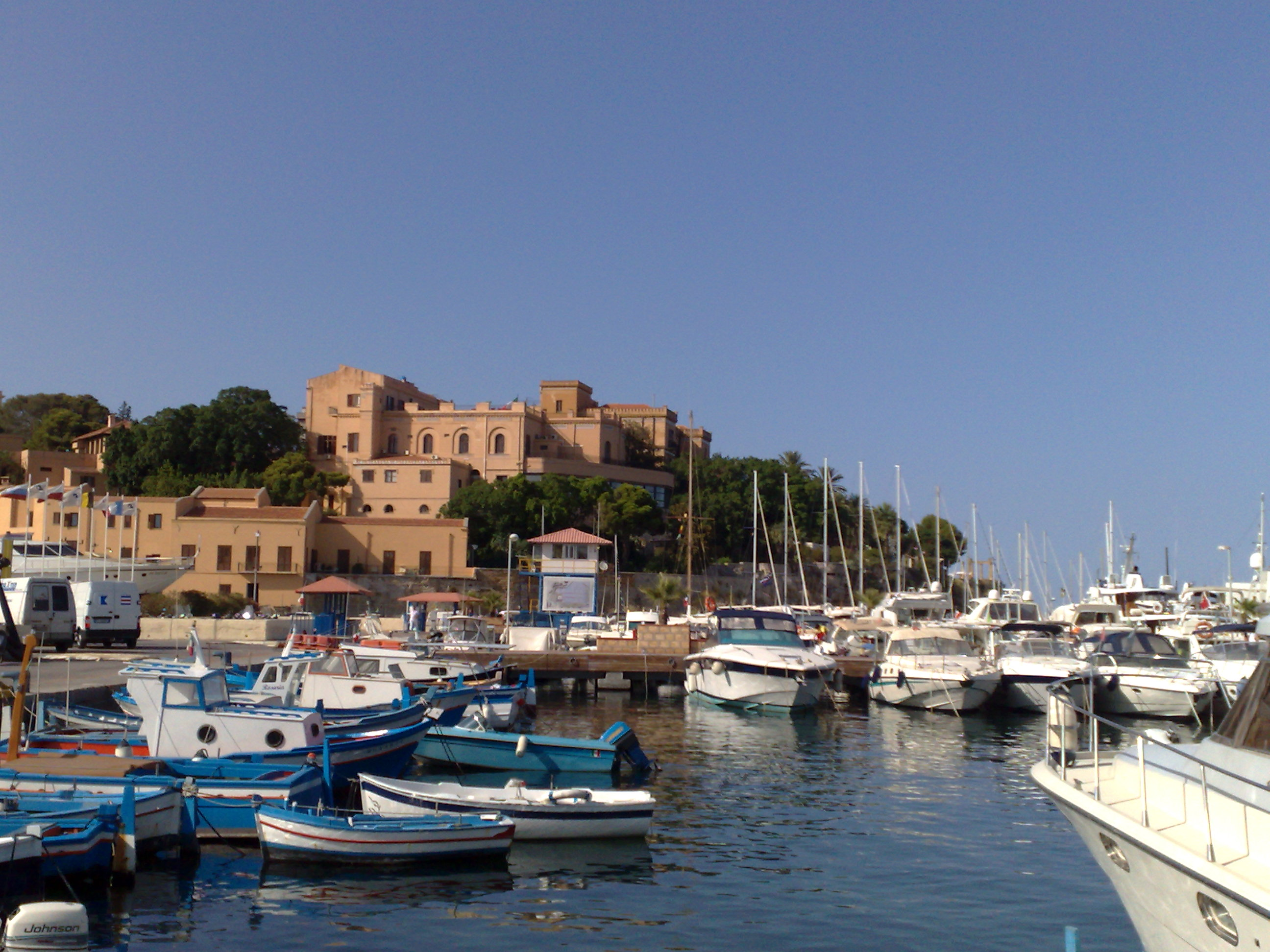 Acquasanta harbour in Palermo, with Villa Igiea luxury hotel, and Monte Pellegrino